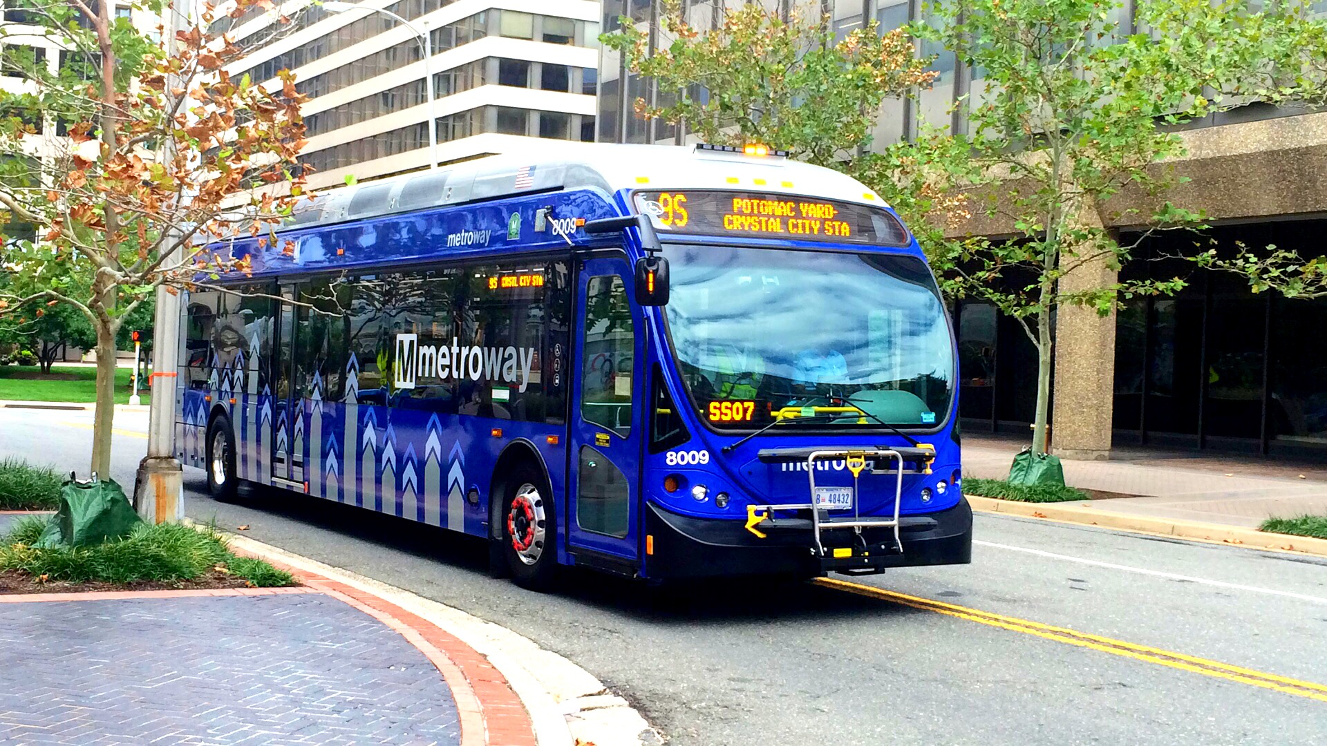 One of the 10 New NABI 42 BRT HEV in the metroway scheme